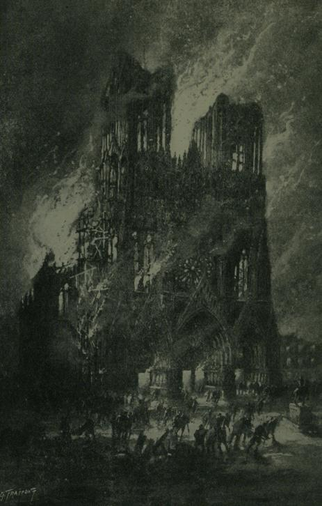 The Cathedral of Reims burns.